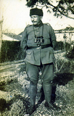 Hasan Riza Pasha